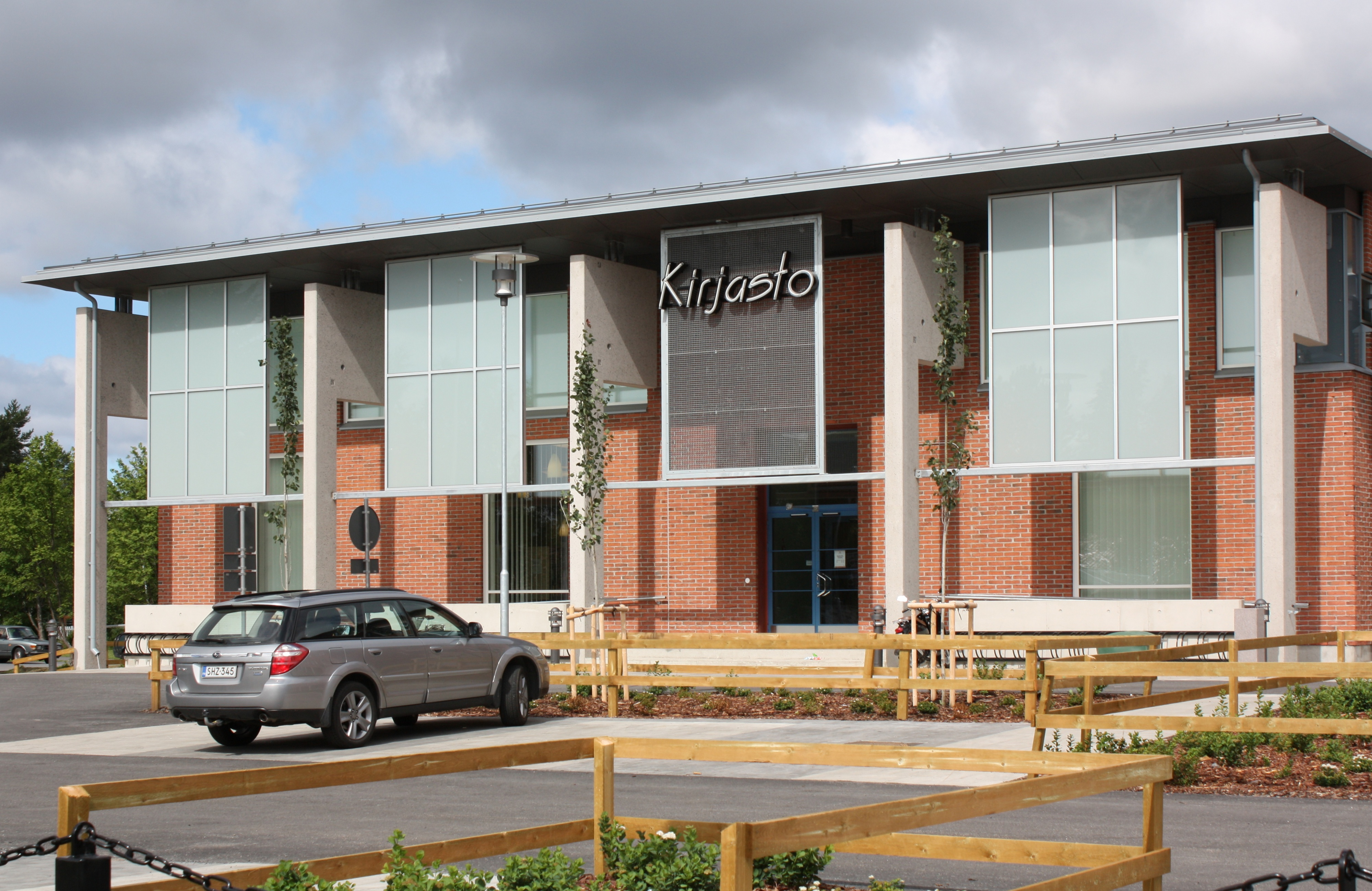 The Rajakylä branch library of the Oulu City library has been built in 2011.